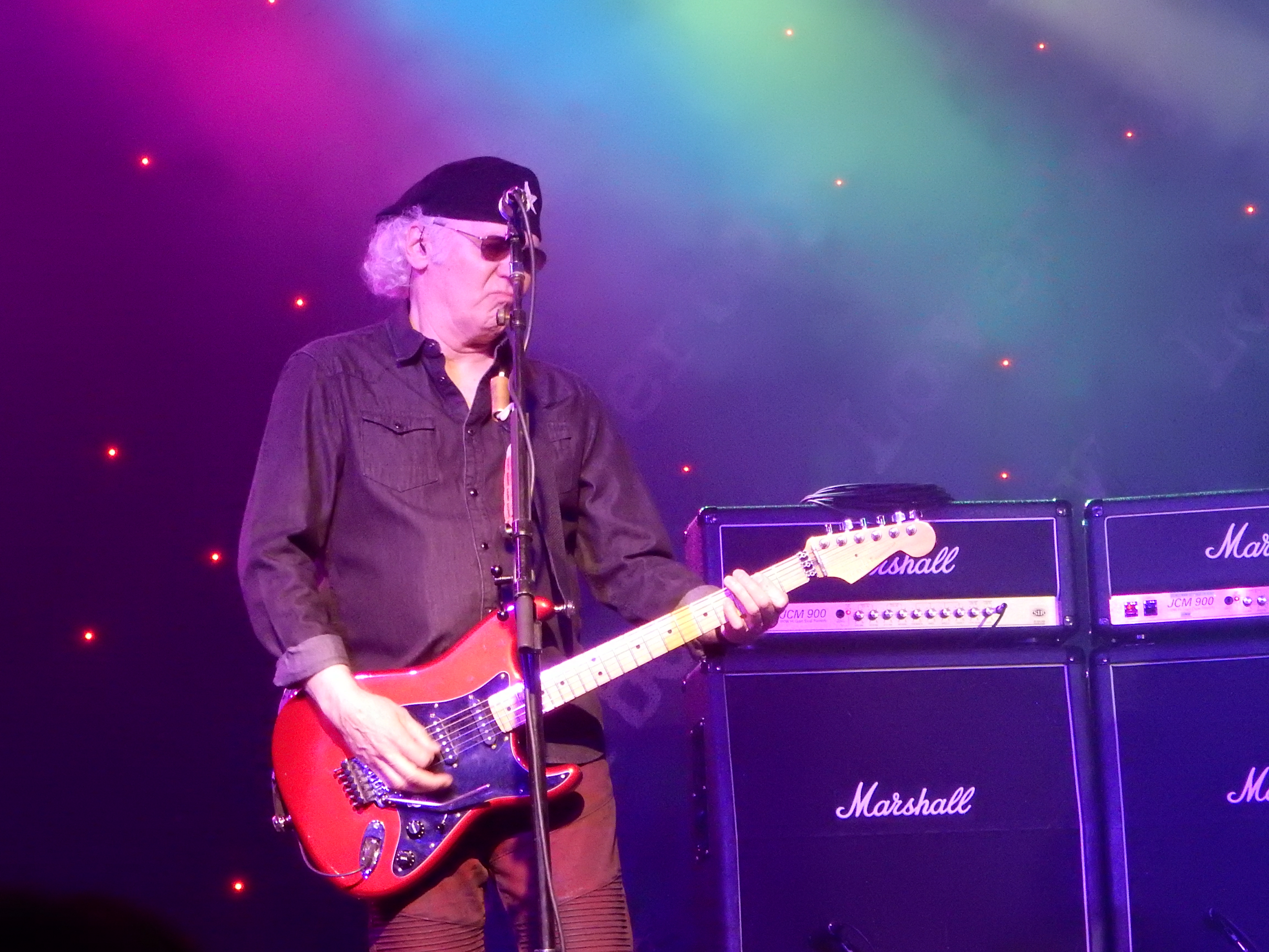 Paul Dean Performing at the Snoqualmie Casino on June 16th 2018